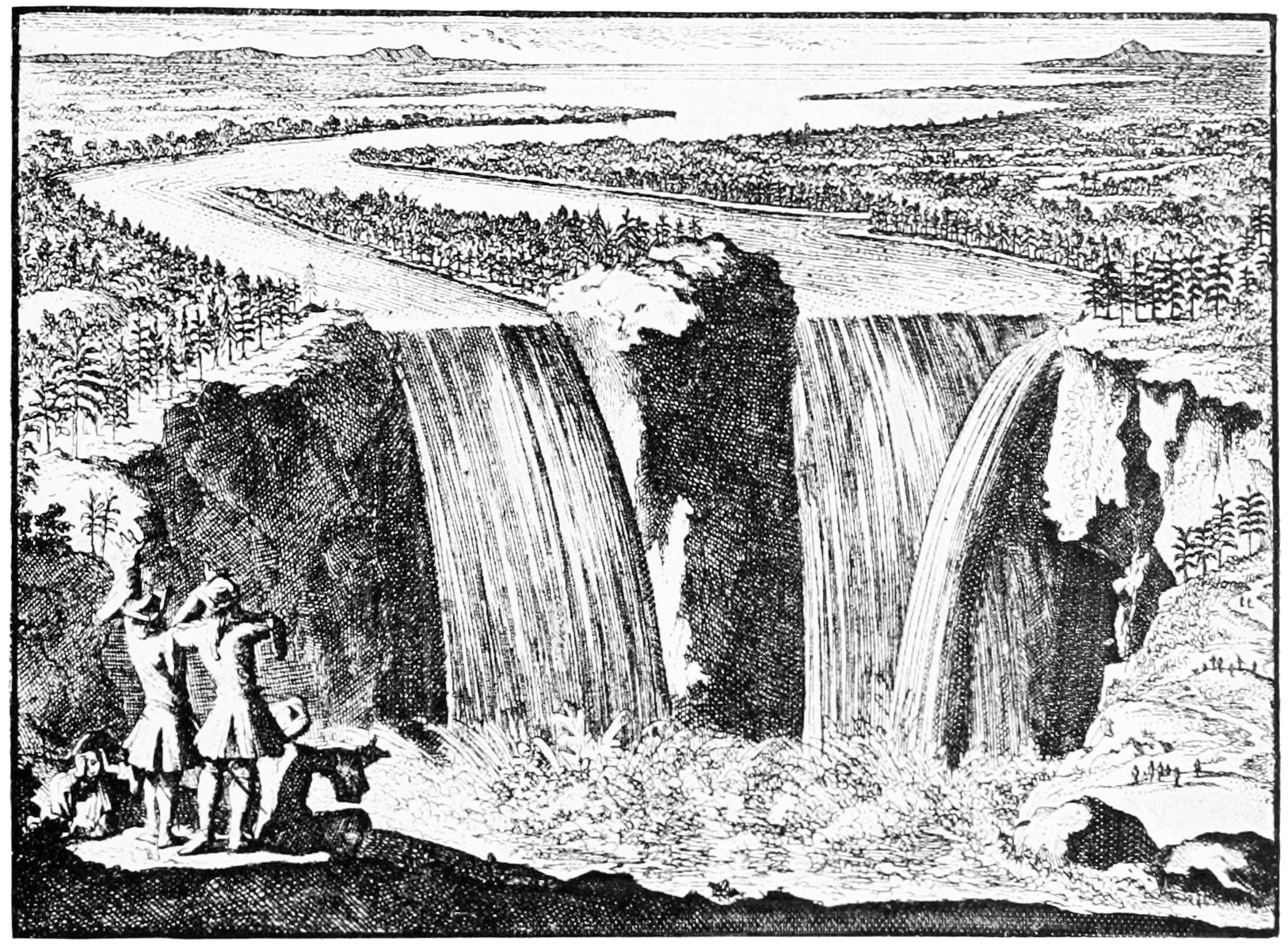 View of Niagara Falls by Father Hennepin